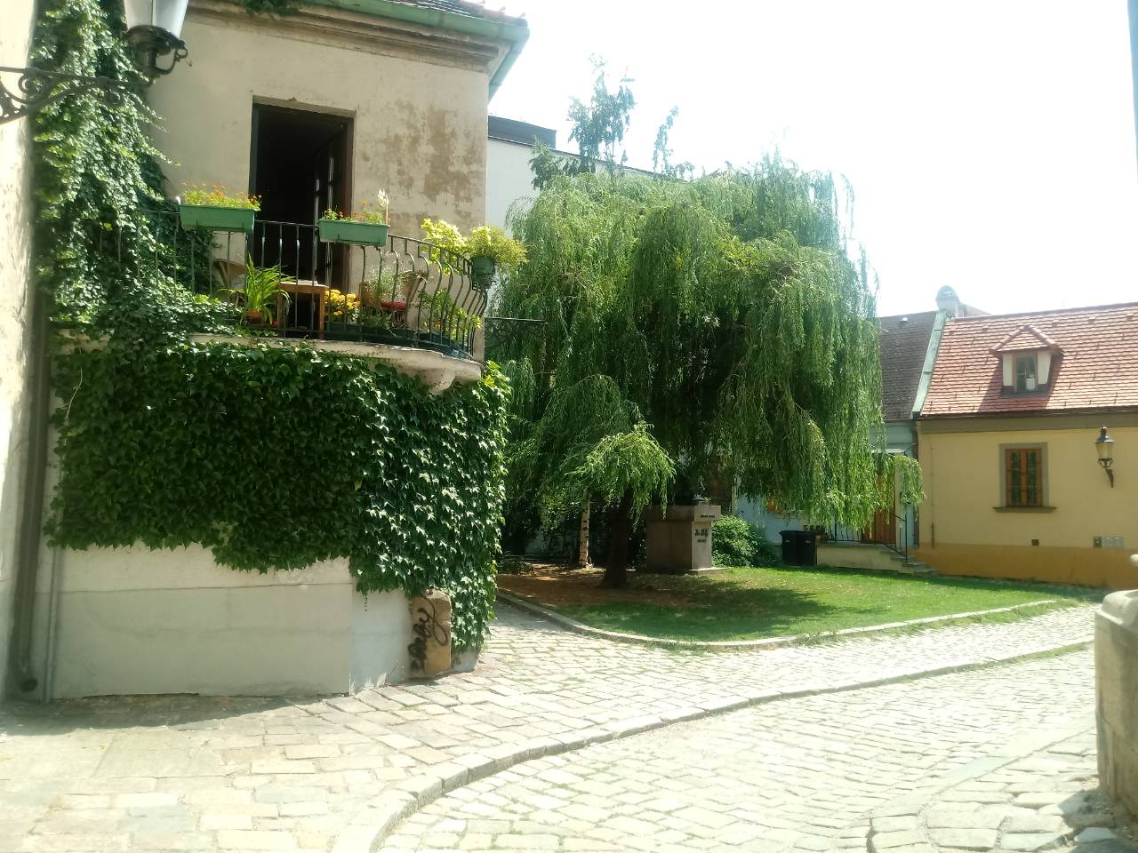 Bratislava, Jewish sector